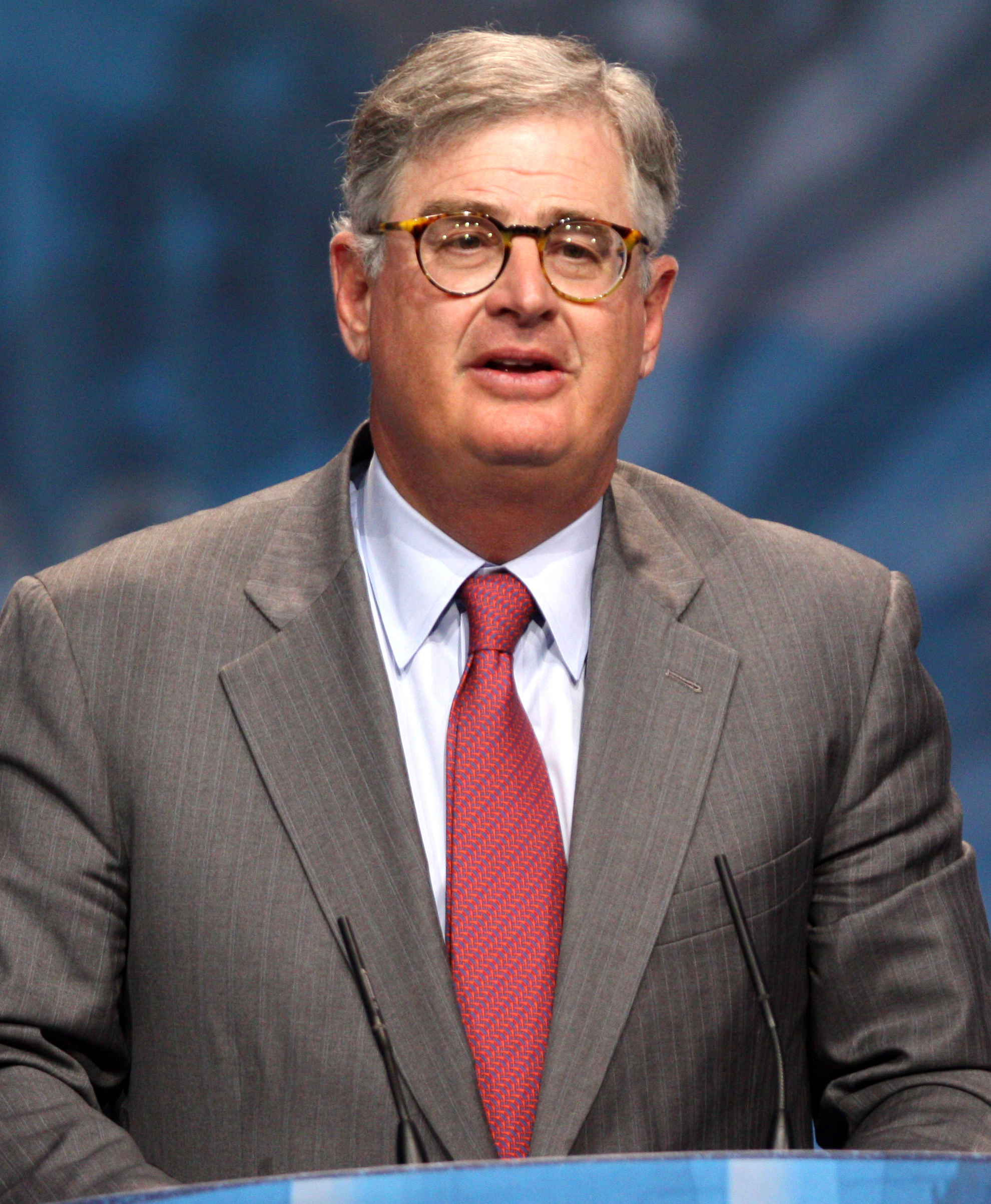 Sam Palmisano speaking at the 2013 CPAC in Washington D.C. on March 15, 2013.